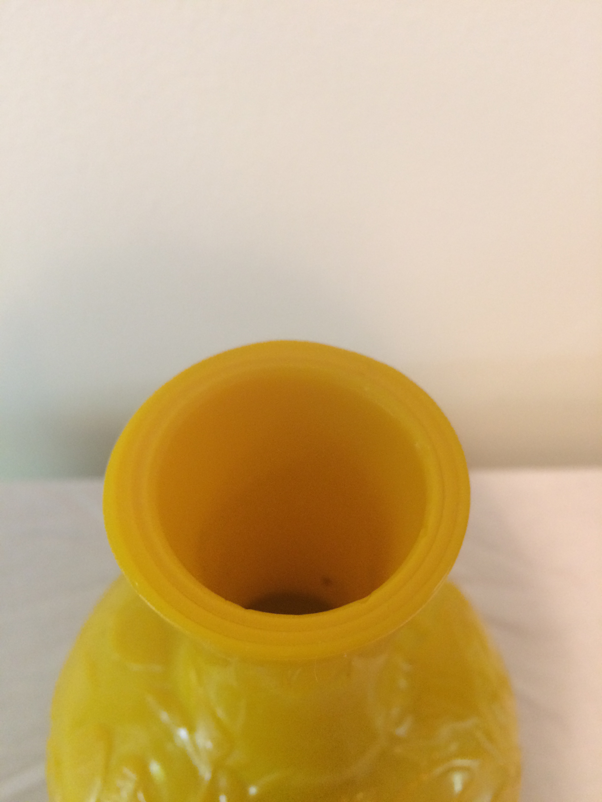 Visible ring layering on the brim of a Peking glass vase.